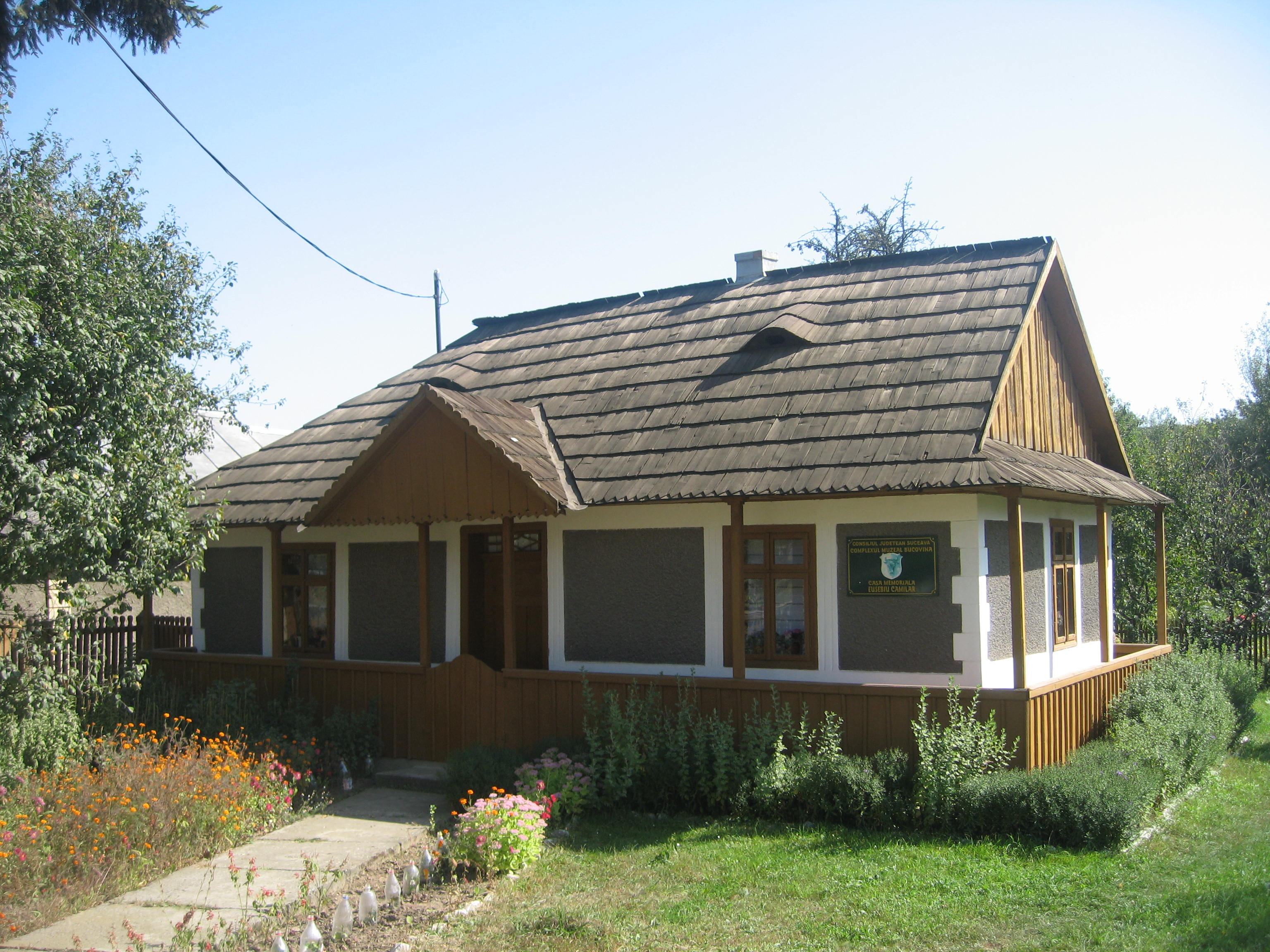 Casa memorială Eusebiu Camilar